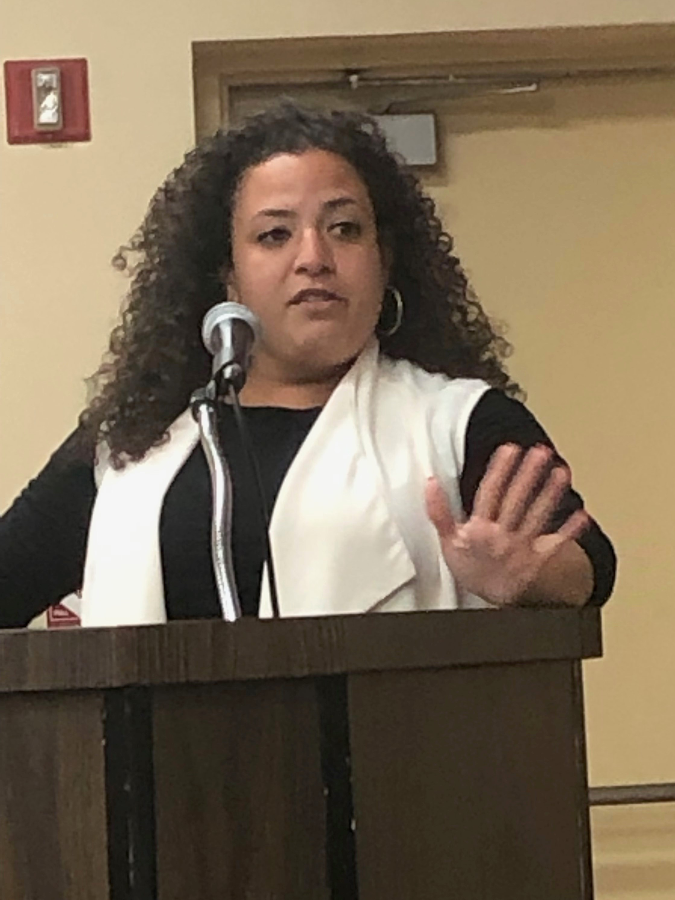 Nathalia Fernandez, politician from The Bronx.